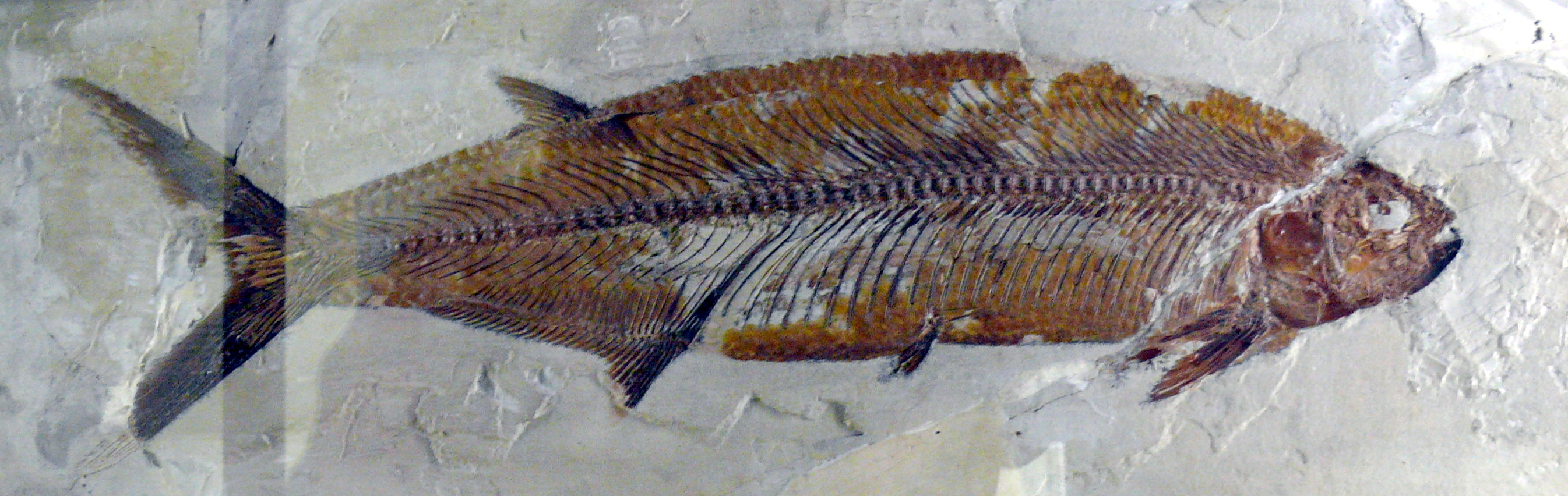 Thrissops formosus from Eichstätt (Upper Jura)